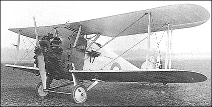 photo originally taken by a British government employee; image found on